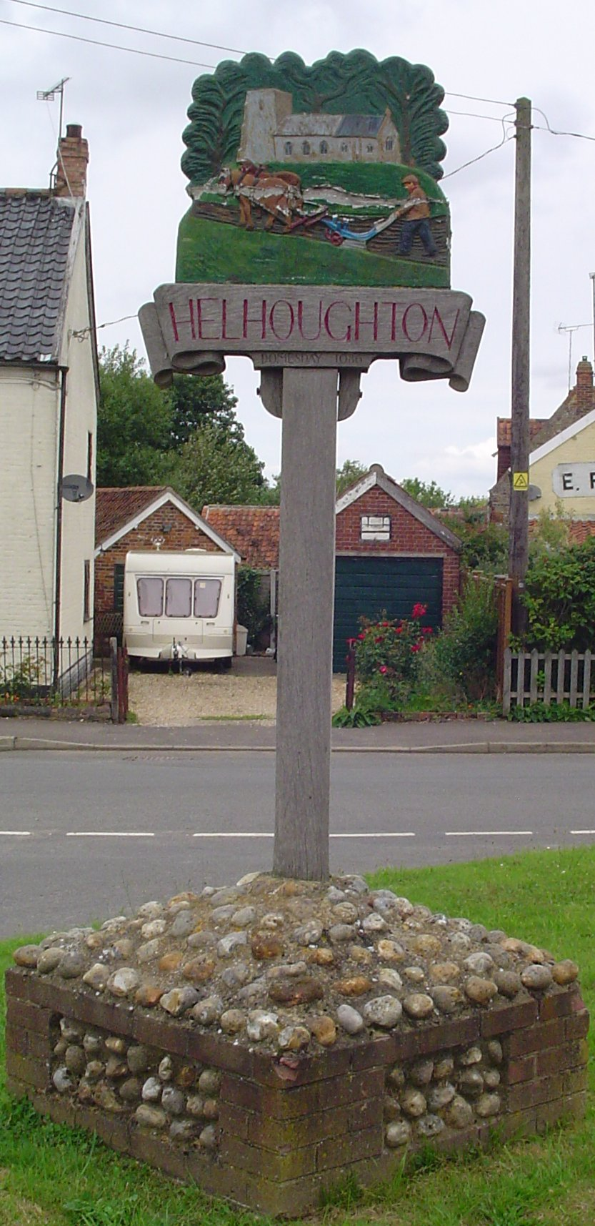 Signpost in Helhoughton